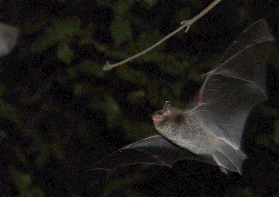 Name: Myotis daubentonii Family: Vespertilionidae. Location: Not far from Münster, NRW, Germany